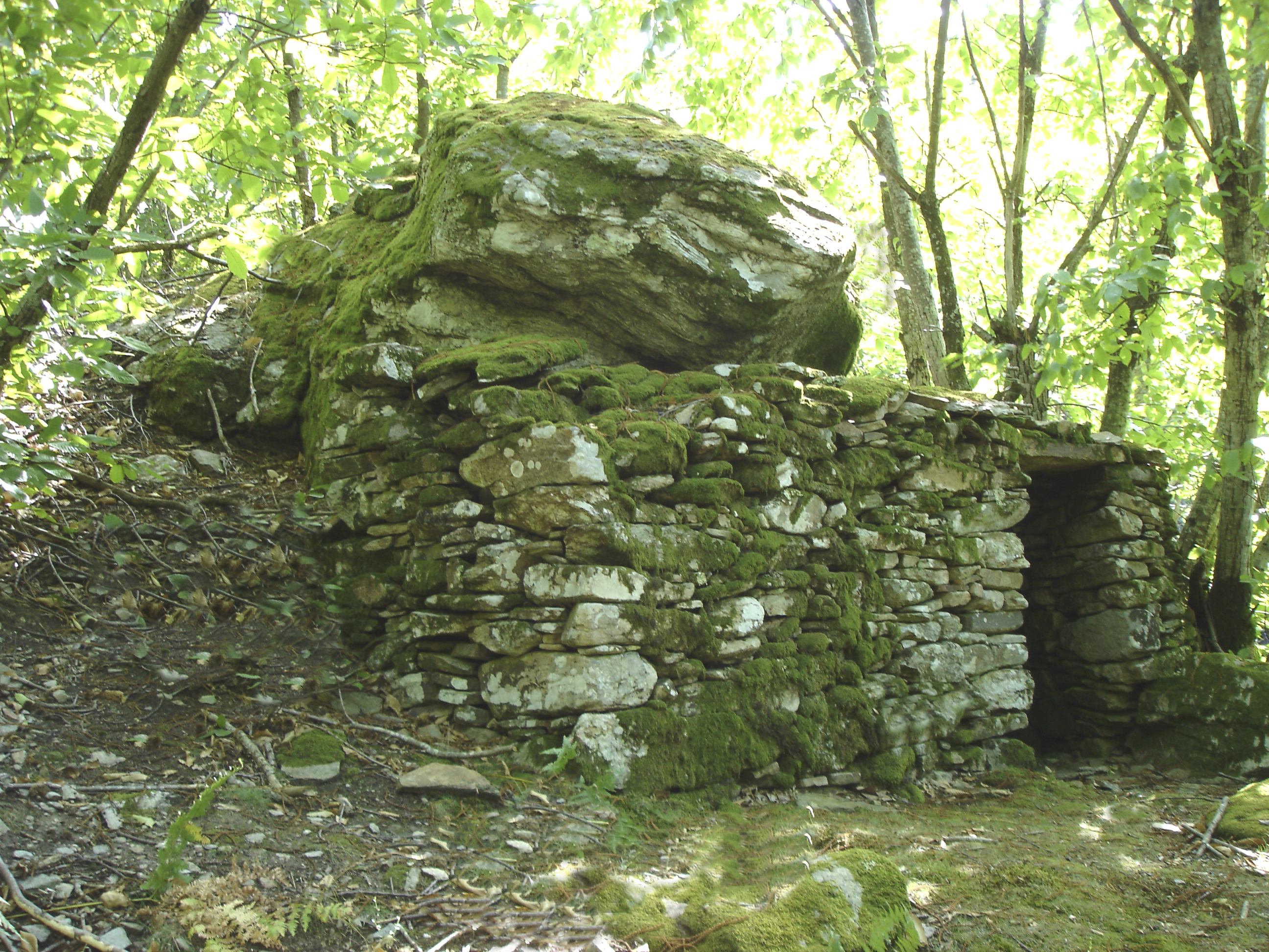 Dry stone sheepfold built partly under a rock in ruisseau de Marselline at Castanet-le-Haut, Hérault.